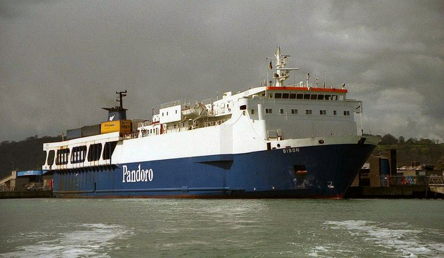 The "Bison" at Larne. Delivered to P&O in 1975 the "Bison" operated between Larne and Fleetwood. Lengthened in 1981. Ran between Dublin and Liverpool 1989-94. Further work undertaken in 1994 to increase capacity and transferred back to Larne - Fleetwood. Re-named "European Pioneer" in 1997. Passenger accommodation increased in 1999. Sold in 2004 and re-named "Stena Pioneer" and still operating on the same route 621514.